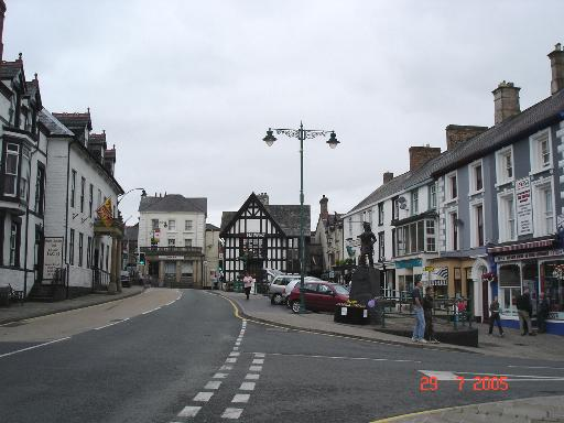 Town Centre Corwen The main road through the small town of Corwen